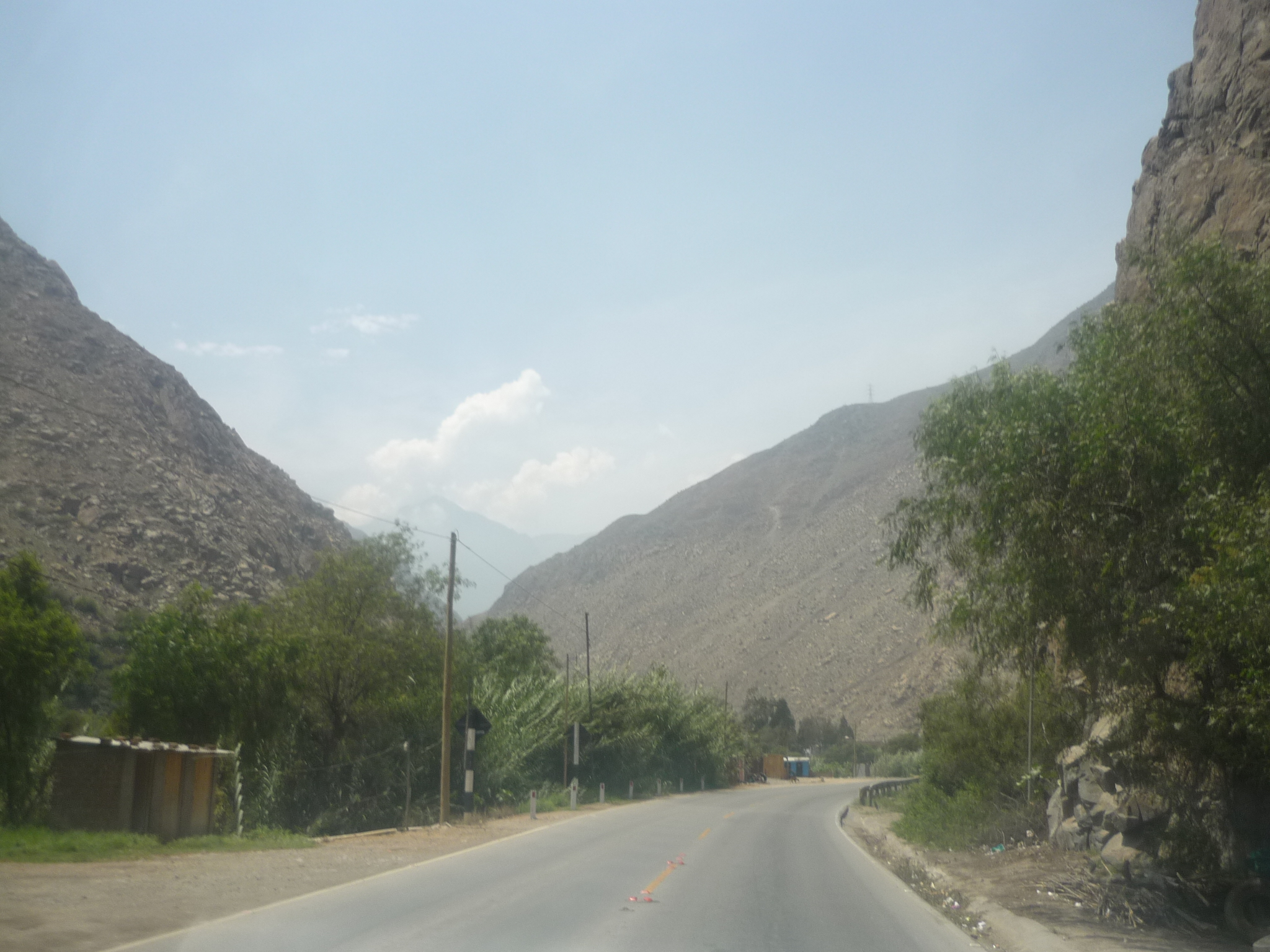 Some houses outside San Mateo de Otao